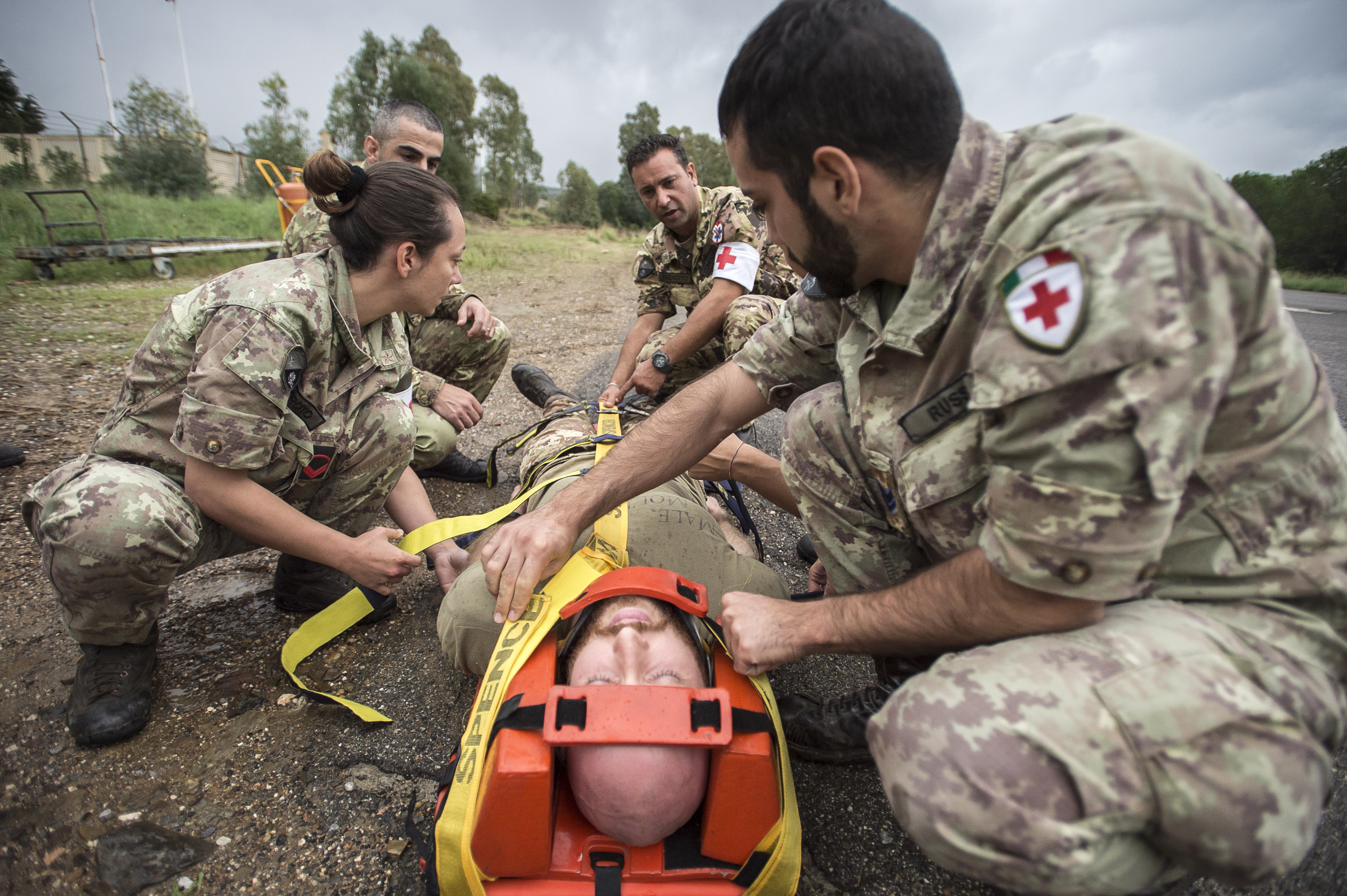 NATO photo by Davide Passone Italian Army Artillery Command carried out a Casualties Evacuation Training (CASEVAC) supported by 2nd Helicopter Regiment 'Sirio' in Teulada, Italy on October 21, 2015 during Trident Juncture 15.